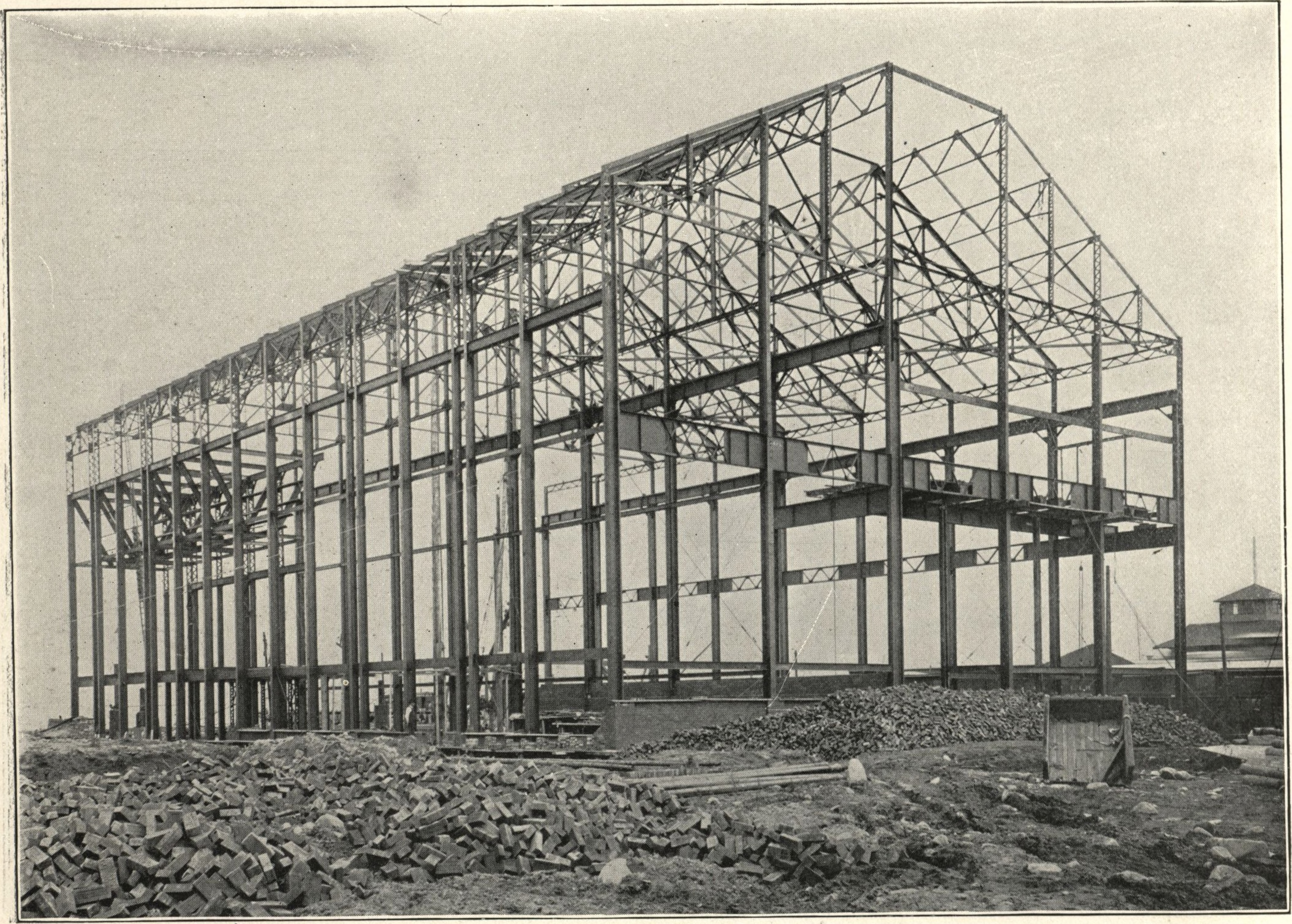 Title: Catalogue of useful information and tables relative to iron, sheet and other products manufactured by Milliken Brothers, arranged for the use of engineers, architects and builders Year: 1901 (1900s) Authors: Milliken Brothers Subjects: structural steel -- catalogs construction equipment -- catalogs Division 05 Division 41 steel column schedule steel beam schedule steel joist schedule structural steel framing structural steel for buildings steel joist framing metal fabrications metal stairs decorative metal cranes and hoists derricks Publisher: Milliken Brothers Text Appearing Before Image: STEEL WORK DESIGNED, FURNISHED AND ERECTED BY MILLIKEN BROTHERS. 131 Edison Elfxtric III. Co., 66th Street Power vStation, Brooklyn, N. Y. Text Appearing After Image: STEEL WORK DESIGNED, FURNISHED AND ERECTED BY MILLIKEN BROTHERS. 1B3 . Spracue Electric Co.s Machine Shop, Watsessing, N. J.